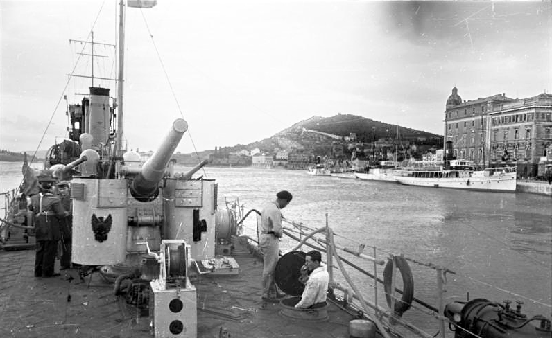 Probably some torpedo boat, possibly Sirtori class?